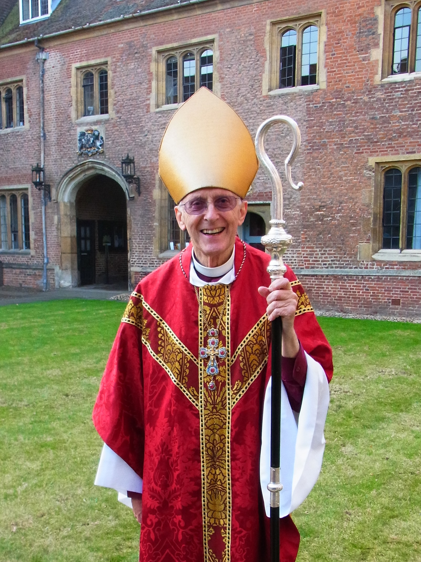 Bishop Simon Barrington-Ward at Magdalene College, Cambridge, 23 October 2011